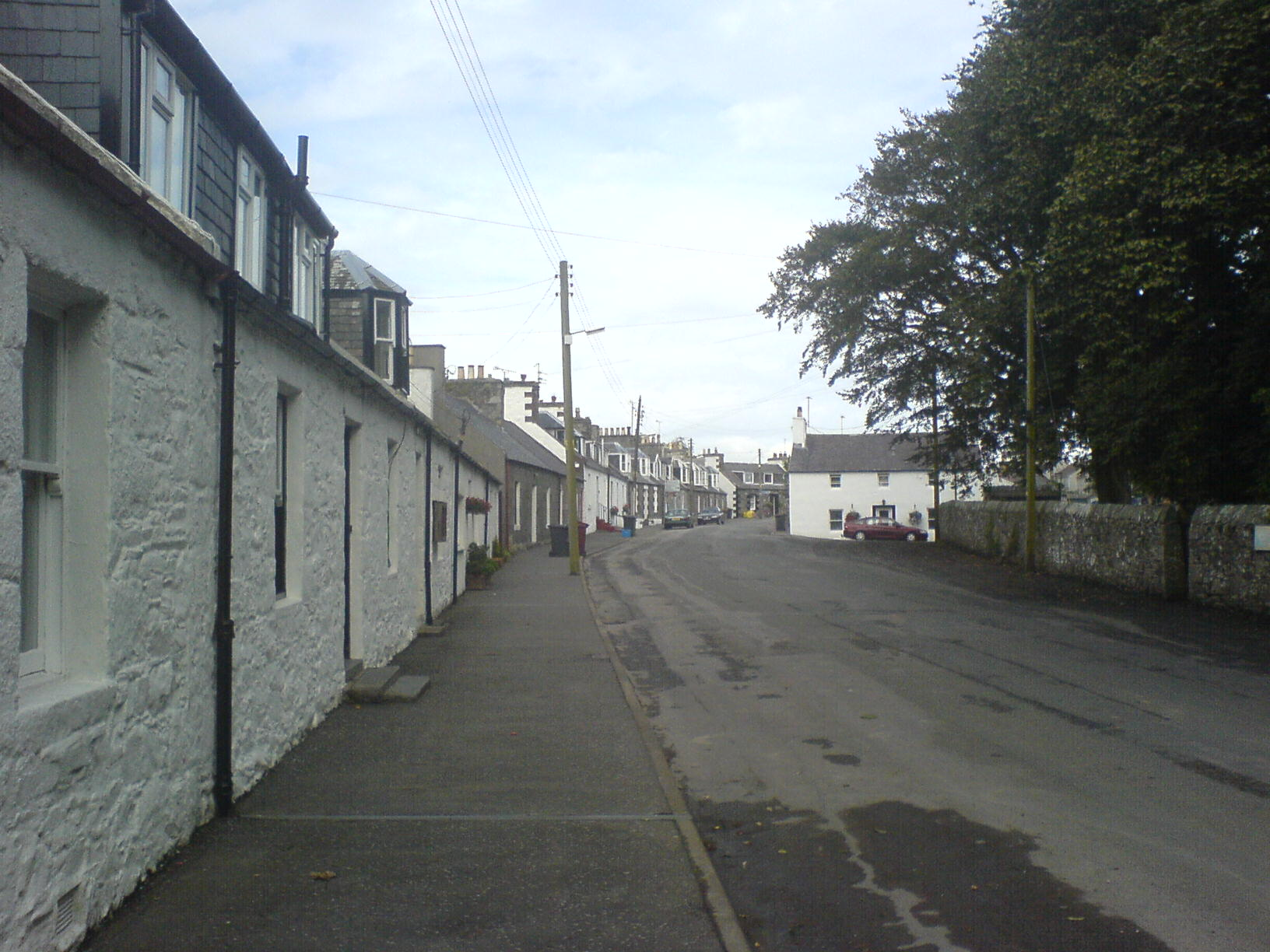 Main street of Mochrum, Dumfries and Galloway, Scotland